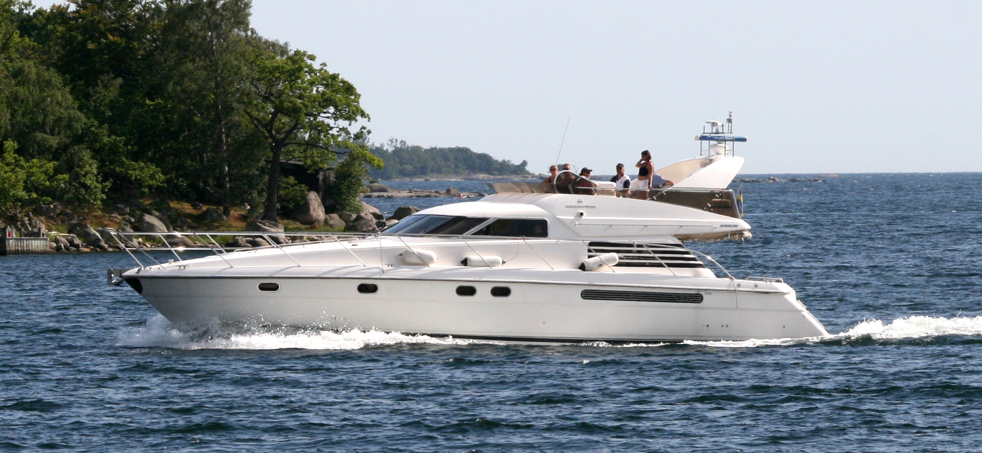 A Fairline Squadron. I believe it's a 56 from the 1990s.